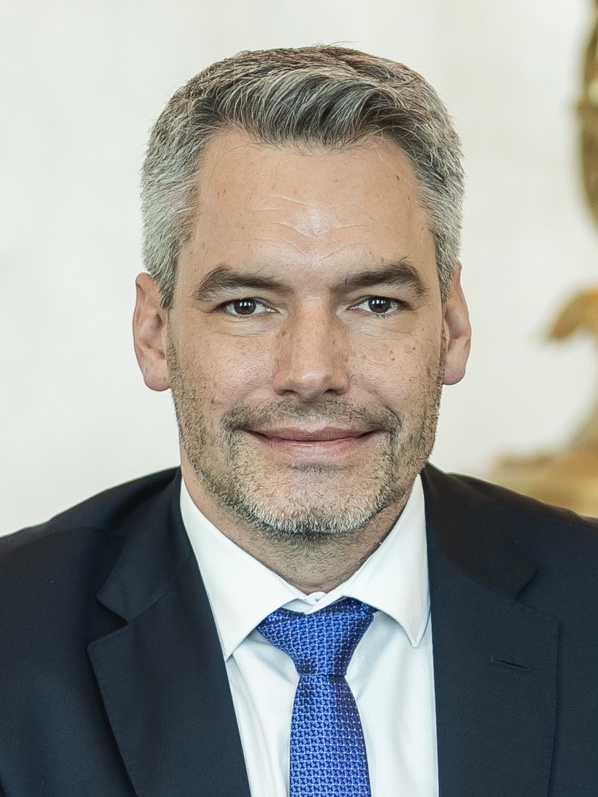 Fotocredit: BKA